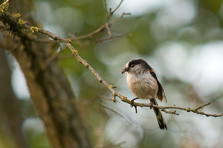 Long-tailed Tit